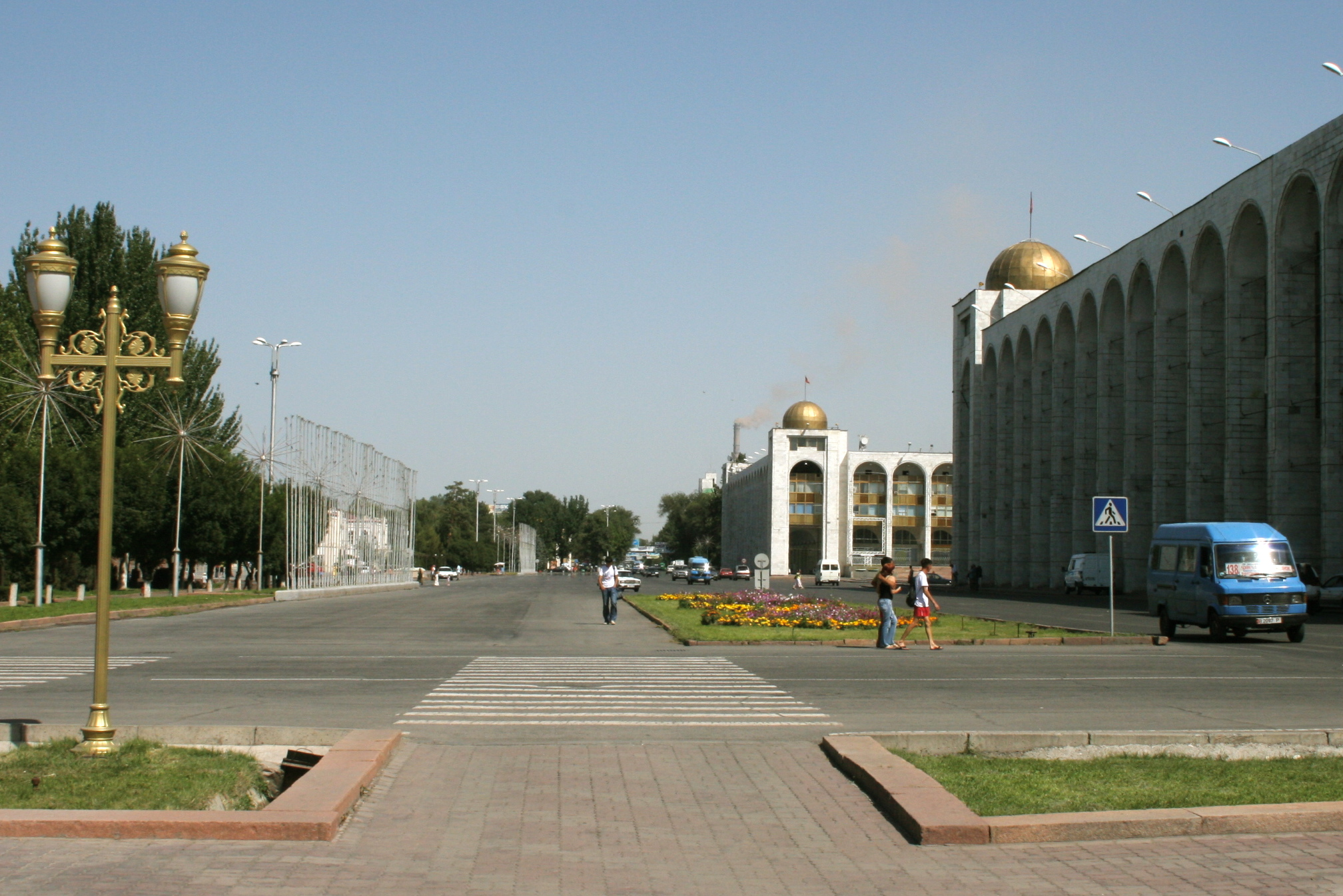 Bishkek, capital of Kyrgyzstan. Overview of the main road downtown Bishkek.